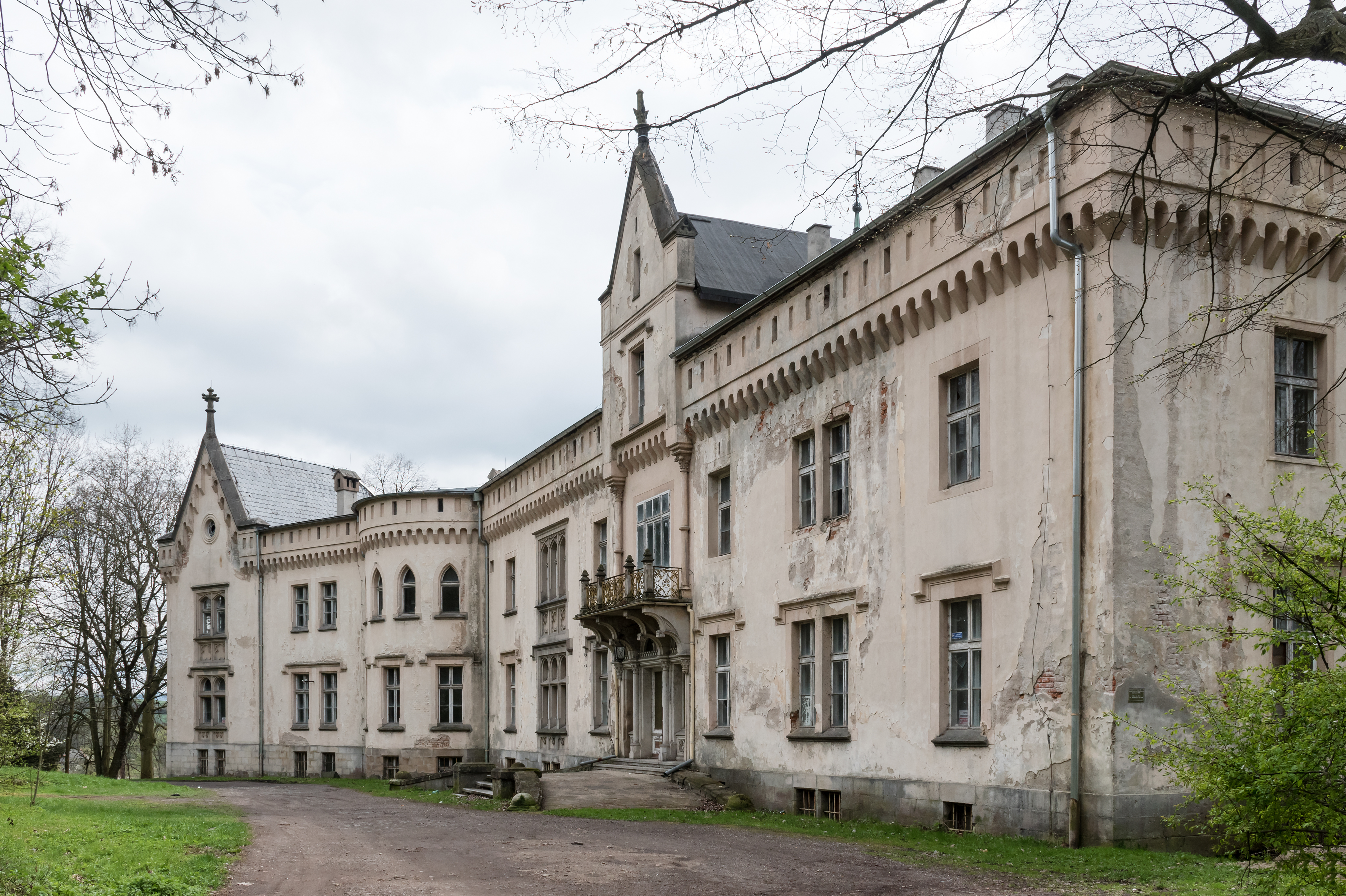 Palace in Szalejów Dolny